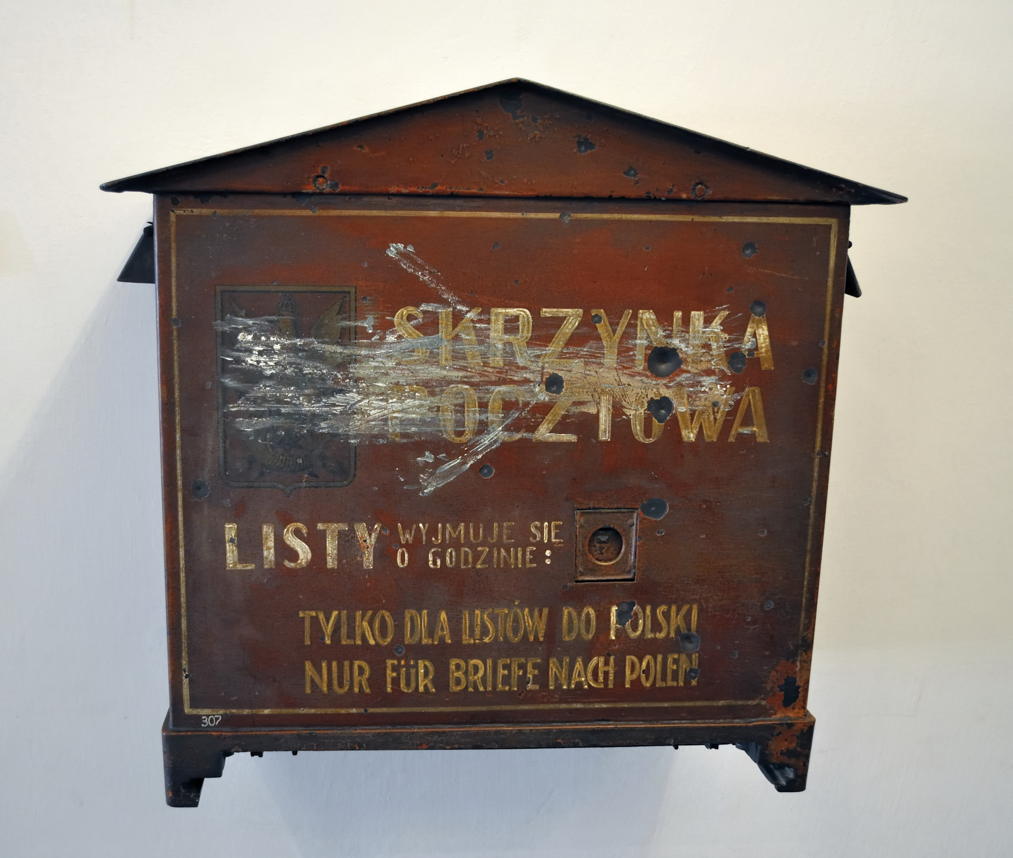 Picture taken in Gdańsk after Wikimania 2010 conference. Old Polish letterbox in post museum.